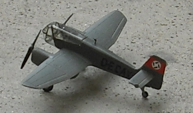 Model of the Berlin B-9, also called 8-341